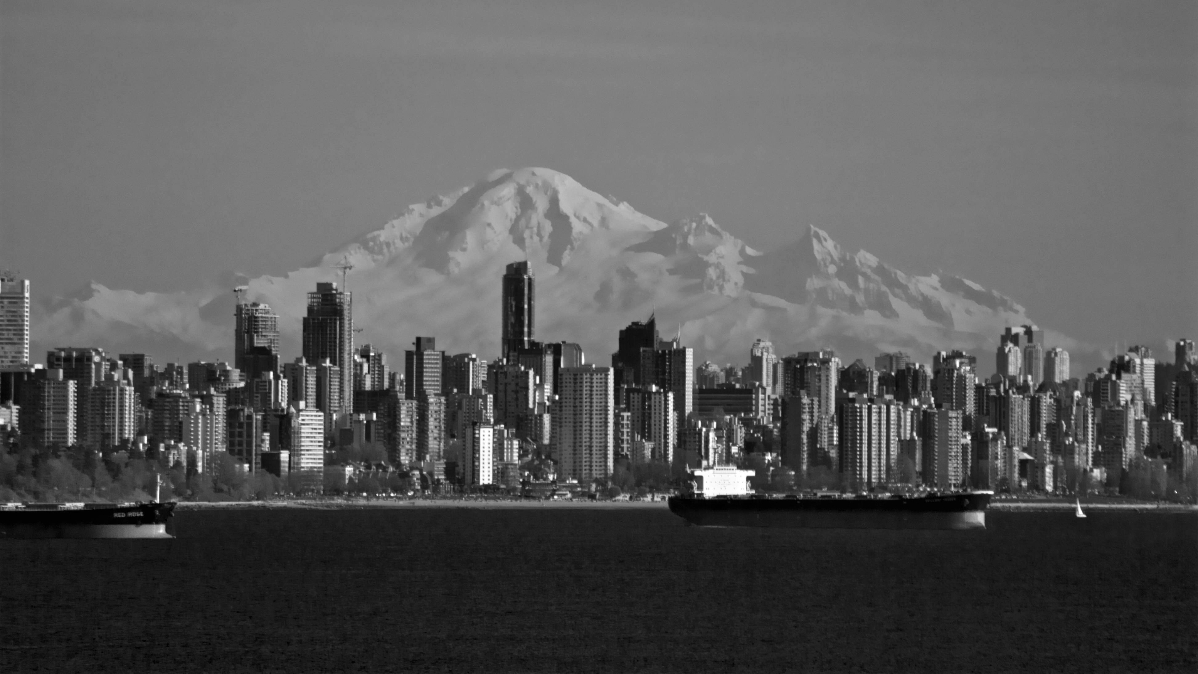 Vancouver as seen from Lighthouse Park. Mt. Baker in the Background